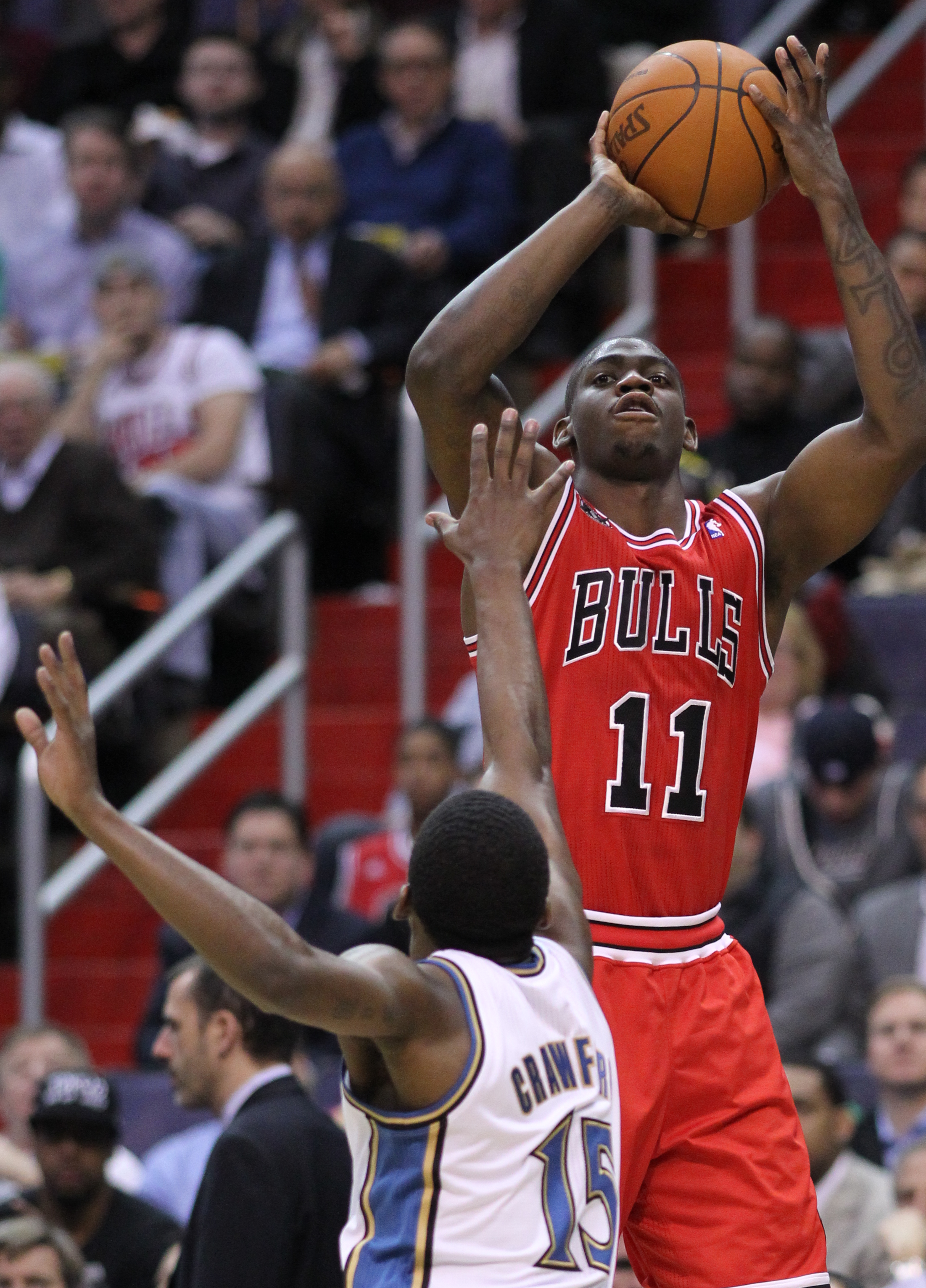 Wizards v/s Bulls 02/28/11